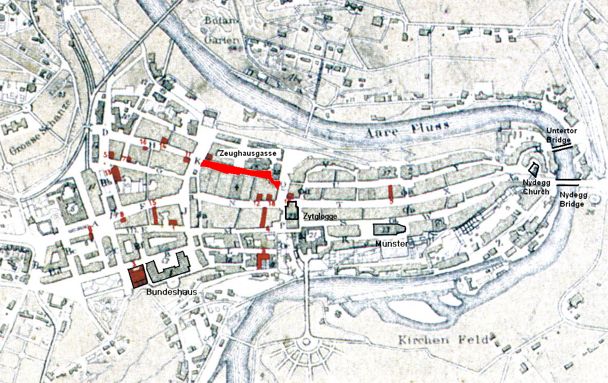 City plan of Bern, 1882. Scanned from BERN: Eine Stadt vor 100 Jahren, Bilder und Berichte; Peter Lauenberger, Emil Erne; München 1997; p. 7. Originally from Bern und seine Umgebungen, C.H. Mann, 1882 in the Alpines Museum of Bern. Due to the age of the image, it must be assumed that the author has been dead for more than 70 years. Copyright protection has therefore lapsed under Swiss copyright law (Art. 29 par. 3 URG).